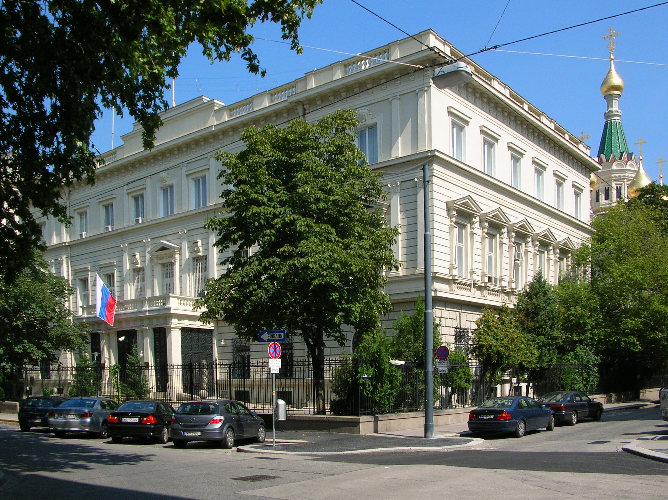 Embassy of Russia in Vienna